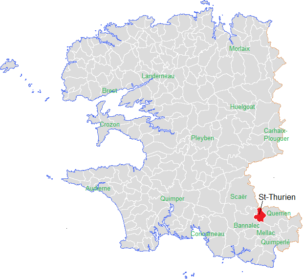 placement St-Thurien in departement Finistère